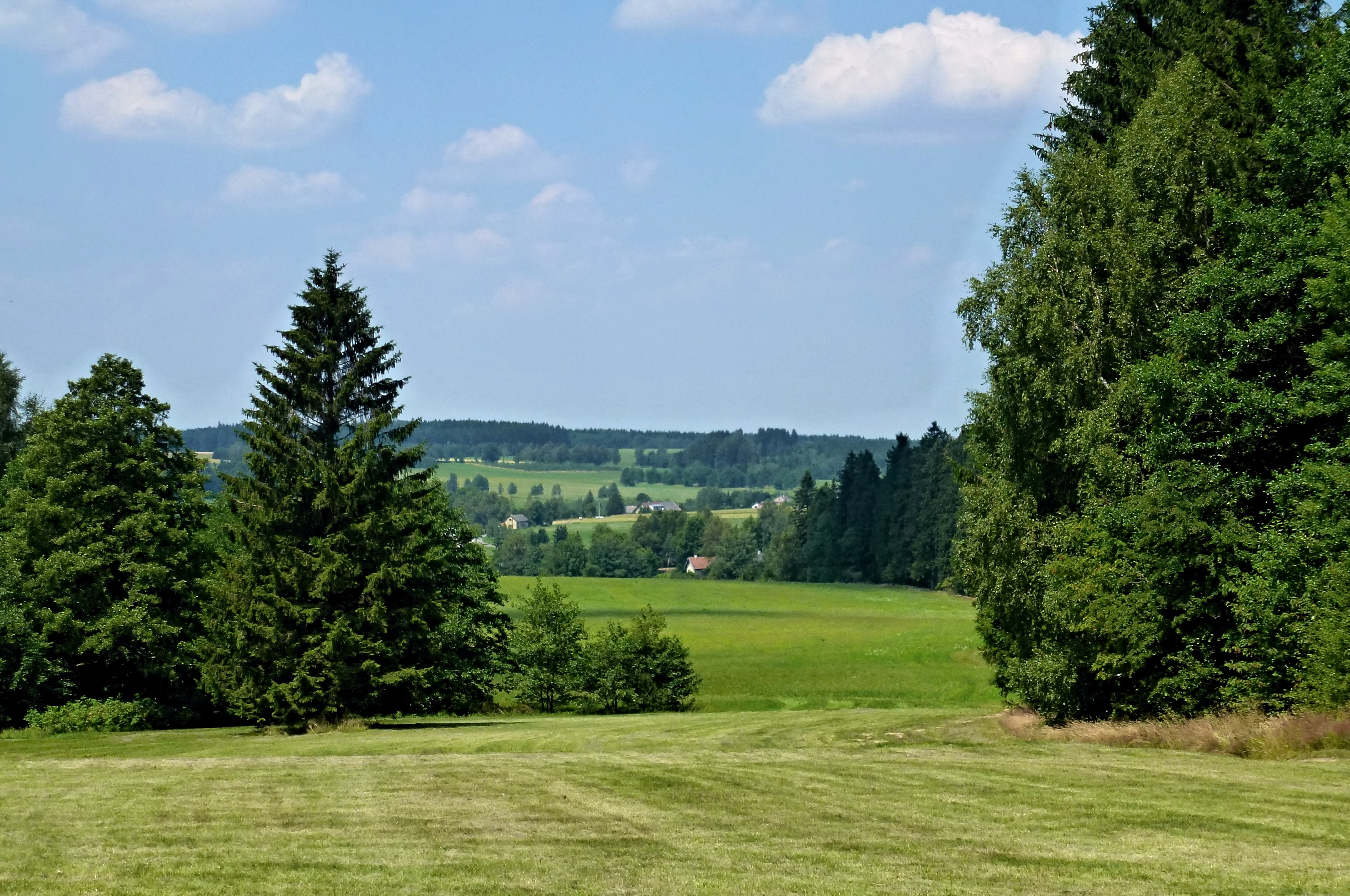 Landscape with springs of river Chrudimka. In the photo on the right is the forest locality Humperky, in the forest there are several springs of river, in the highest positions of the source area, also "Filipovský" source of river at an altitude of 705 m. The geographical name (hydronymum) of a water source is derived from the village of Filipov (on a photo in the middle). Above the village is slope of hill with name "On the hill" (681 m), with second the source of river on damp meadows. On the photo on the left the trees above the lesser water stream, it originates at an altitude of 704 meters in the settlement of "Paseky" (water spring called "Na Pasekách"). A photo from a tourist route near the settlement of "Paseky", view from the slope (704 m) in the direction of the settlement "Filipov". Photo locality: Czechia, Vysočina Region, municipality Chlumětín, geomorphological district with name the "Kameničská" Highlands, source of river "Chrudimka".